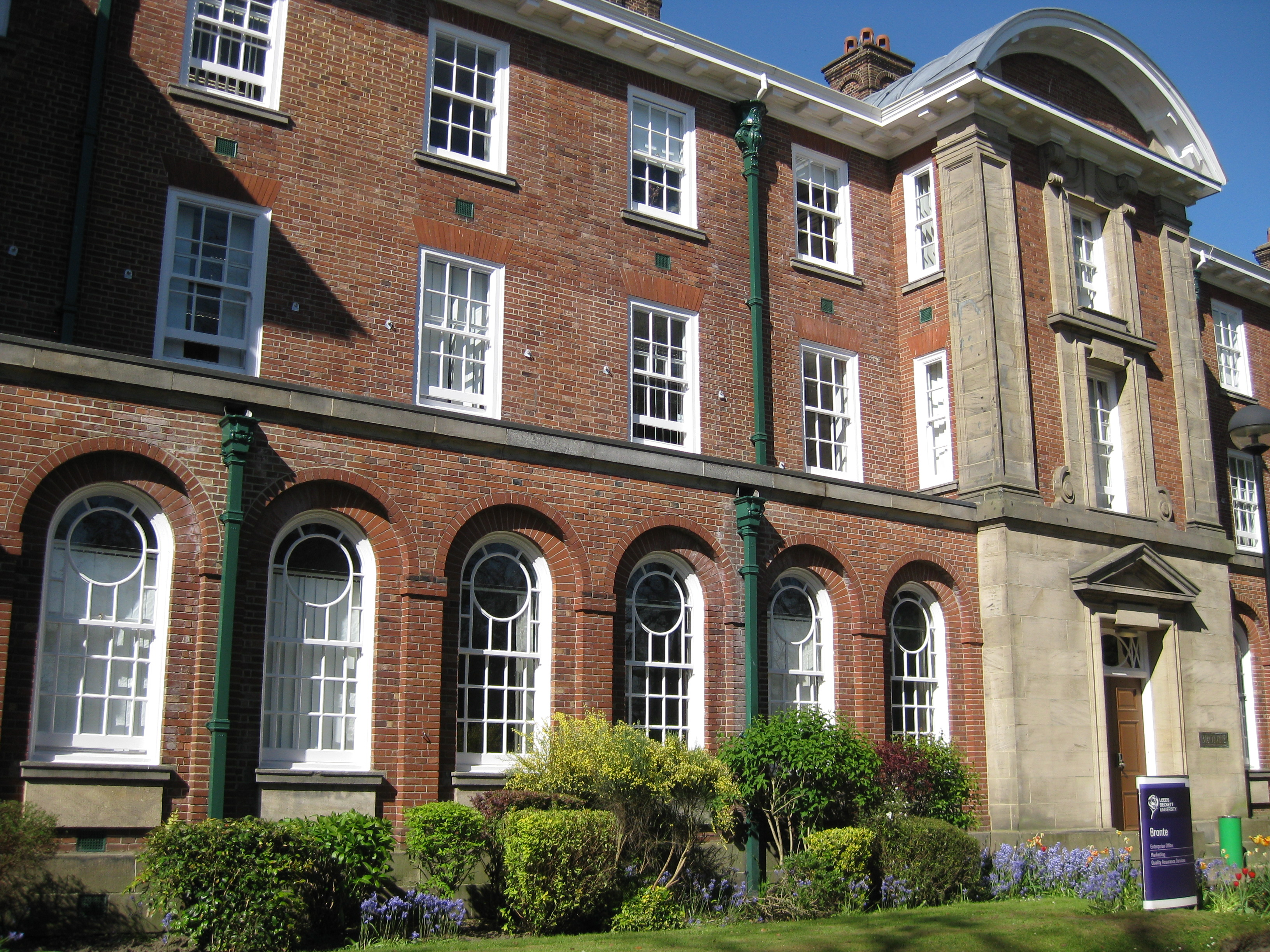 Bronte Hall on the Beckett Park campus, Headingley, of Leeds Beckett University.